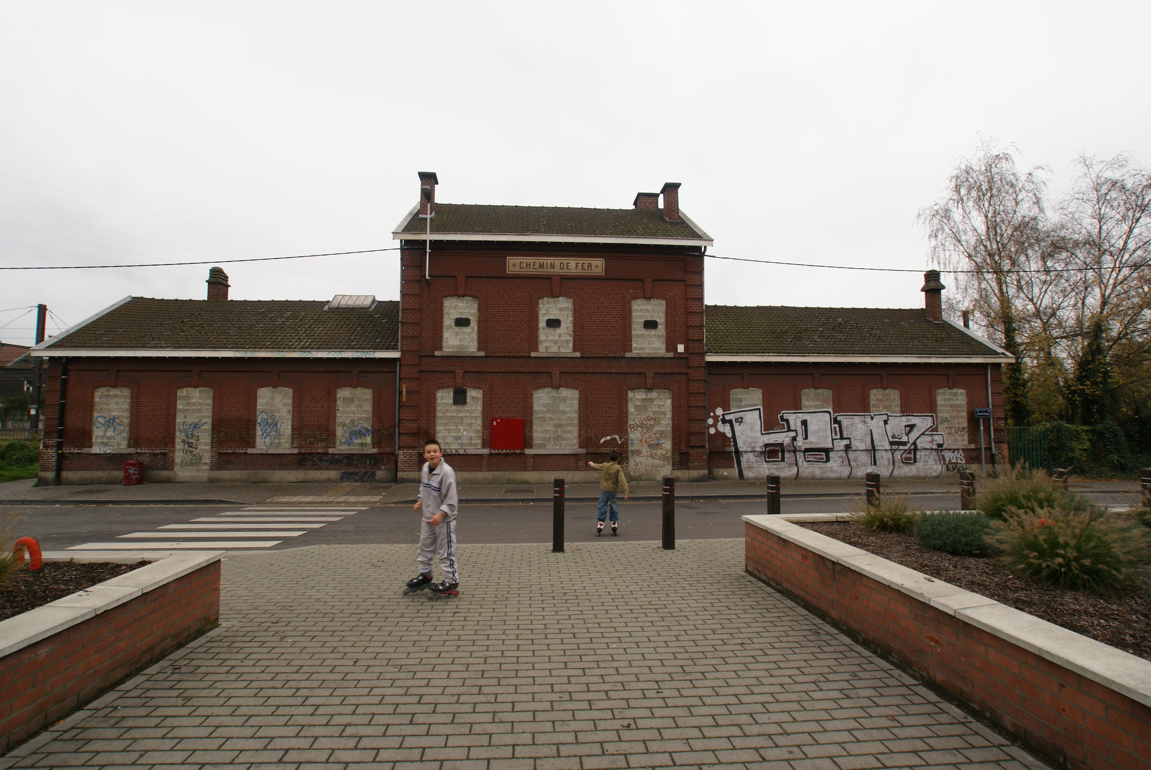 Tilleur (Belgium): Former Railway Station